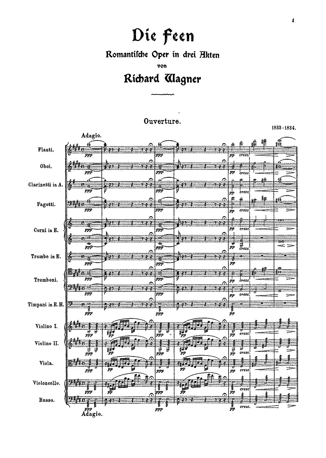 Opening of Richard Wagner's opera 'Die Feen'